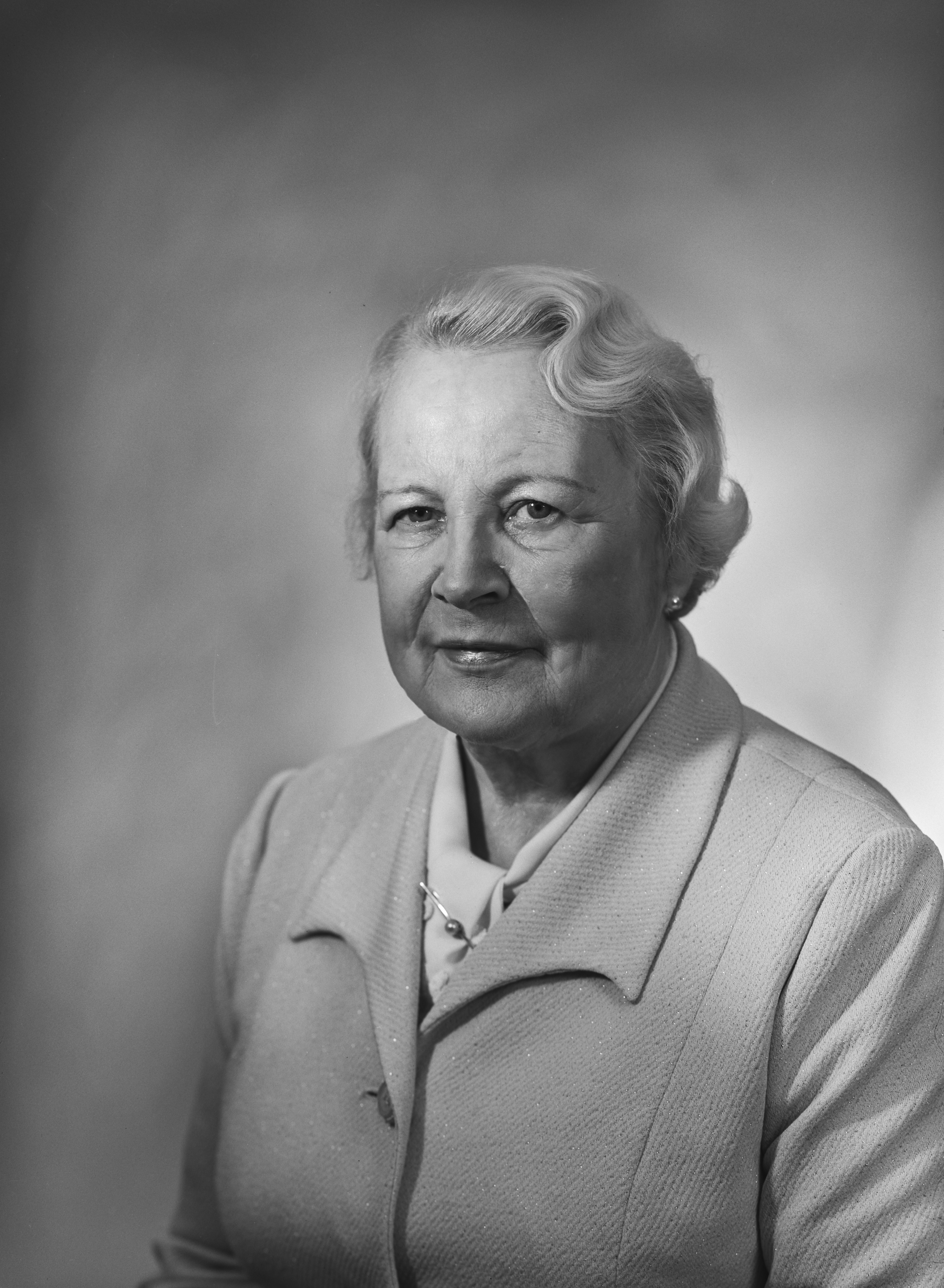 Photograph of the Finnish physician Kaisa Turpeinen-Alitalo (1911–2006).